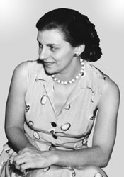 year 1952